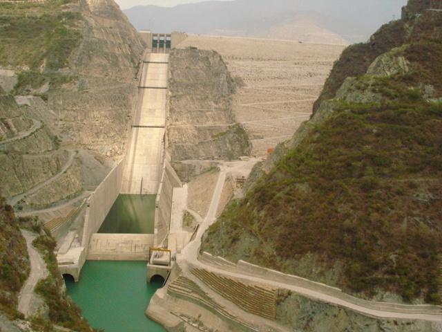 A pic of the Tehri dam taken from a moving bus... the Tehri dam on the Bhagirathi river is a man made wonder, and is the largest rock and earth fill dam in Asia. The reservoir of the dam drowned the District headquarters of Tehri, which have now been shifted to New Tehri